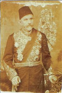 Abidin Pasha